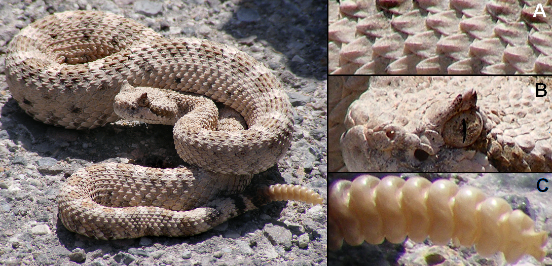 Crotalus cerastes, more commonly known as a horned rattlesnake. They reside in desert areas in the western United States and the northwestern areas of Mexico.